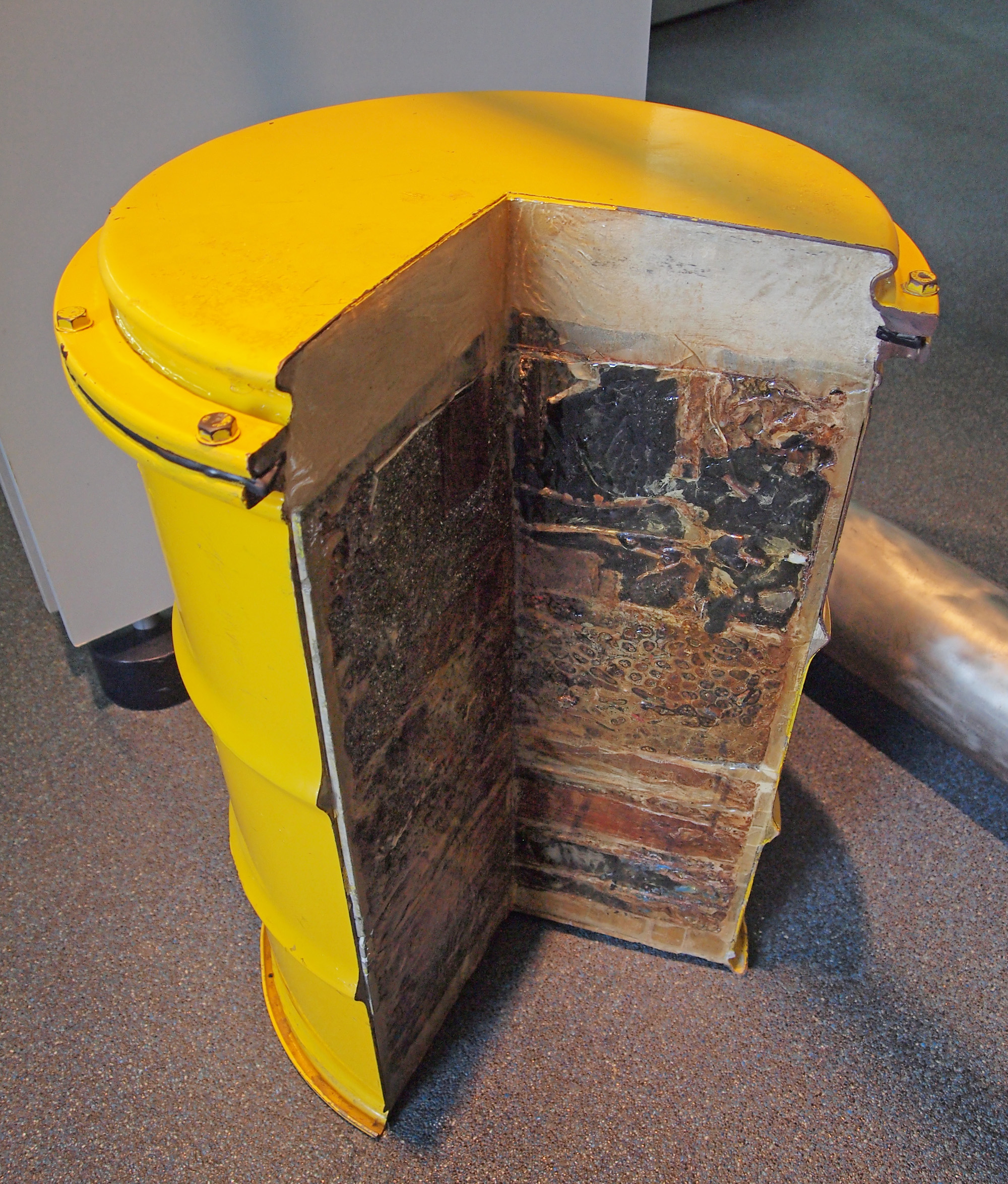 Nuclear waste container model in Deutsches Museum. This photograph was taken with a Olympus E-PL1.